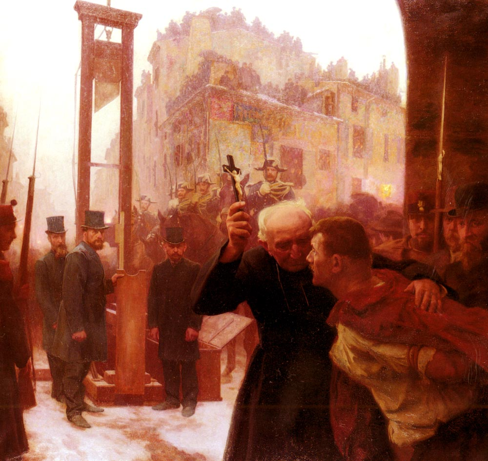 The Expiation